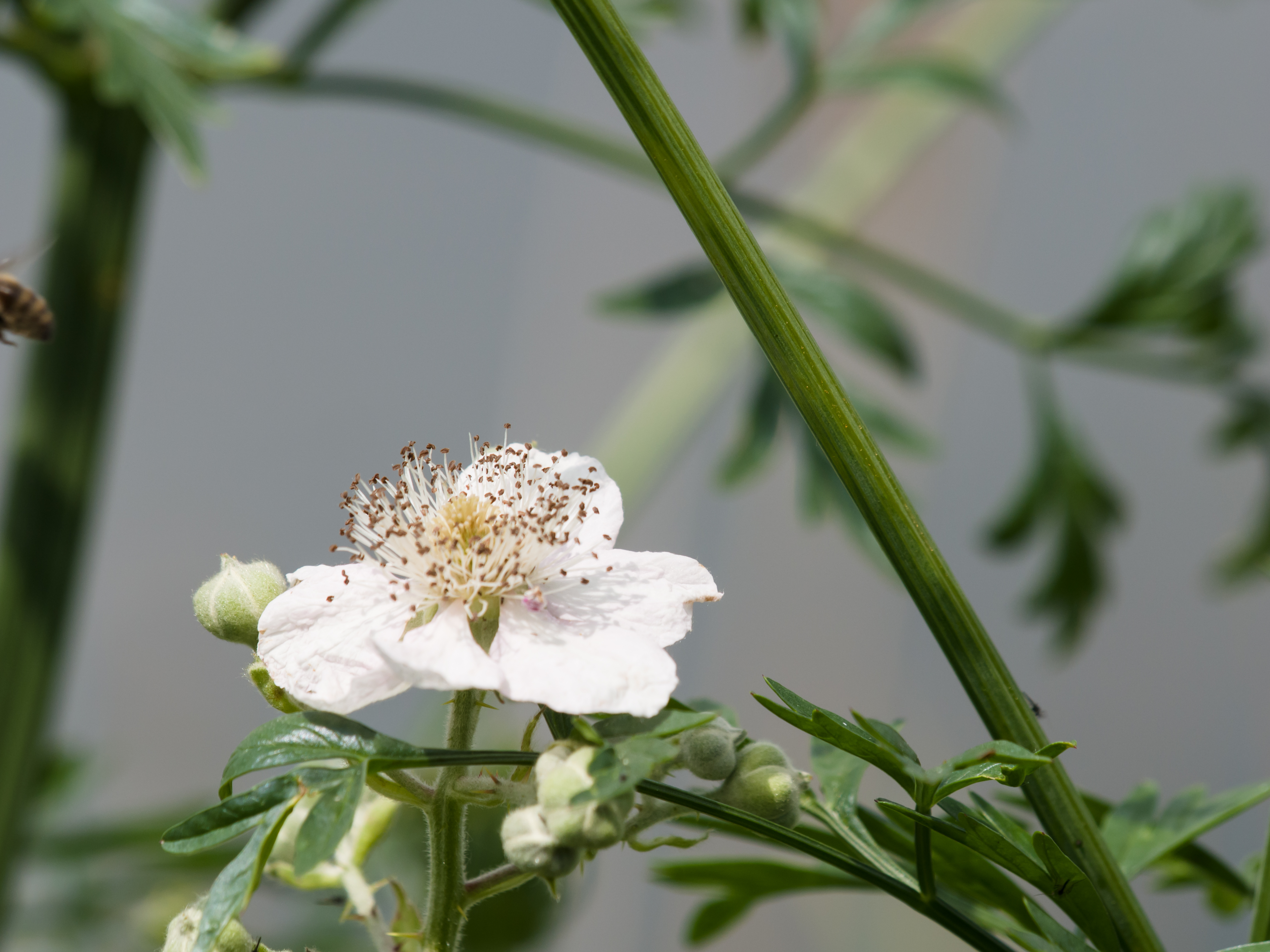 Jubilee River